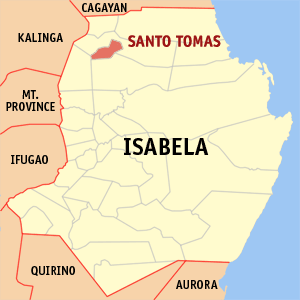 Map of Isabela showing the location of Santo Tomas